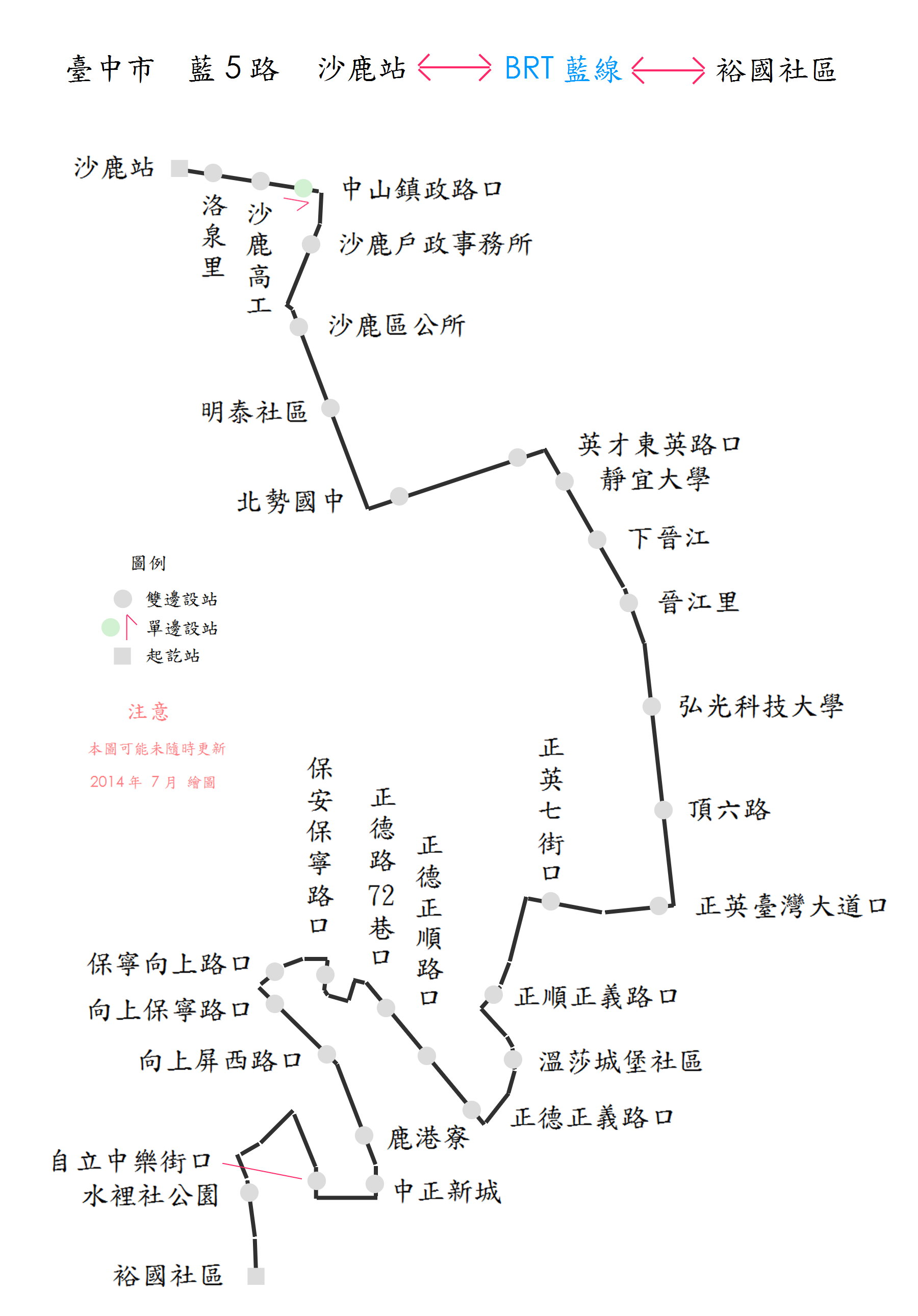 Plan of Taichung City Bus Route BL5